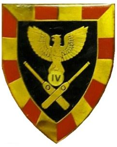 SADF era 4 Artillery Regiment emblem v2